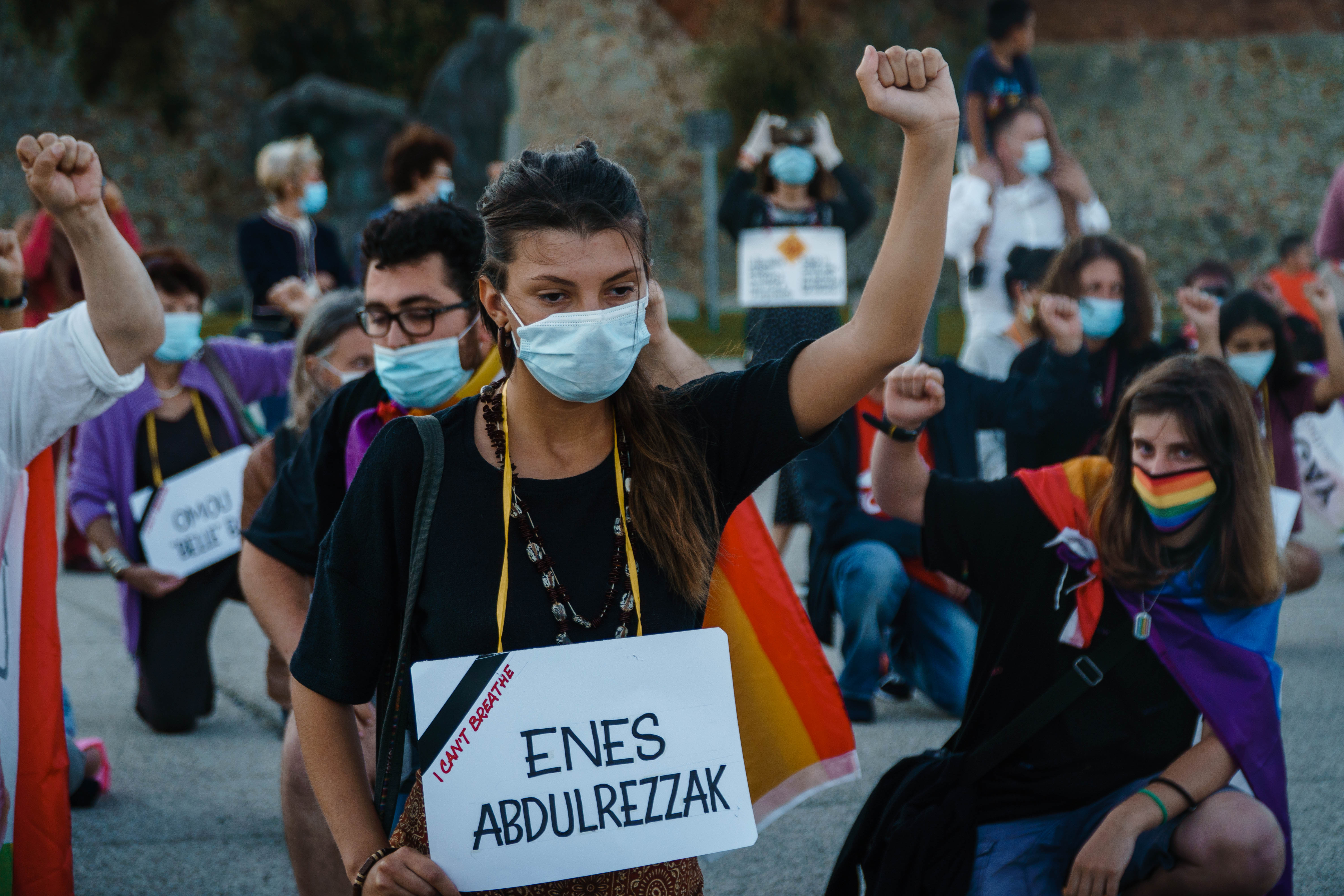 TwentyShoes - 31